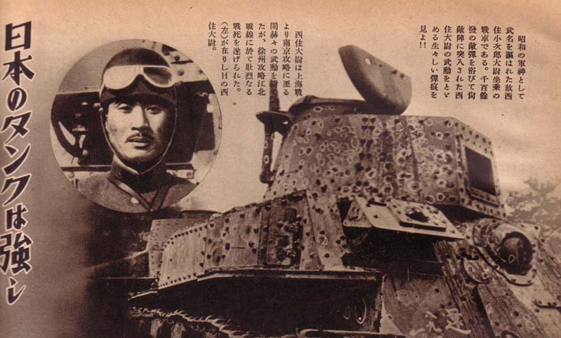 Kojirō Nishizumi and his tank